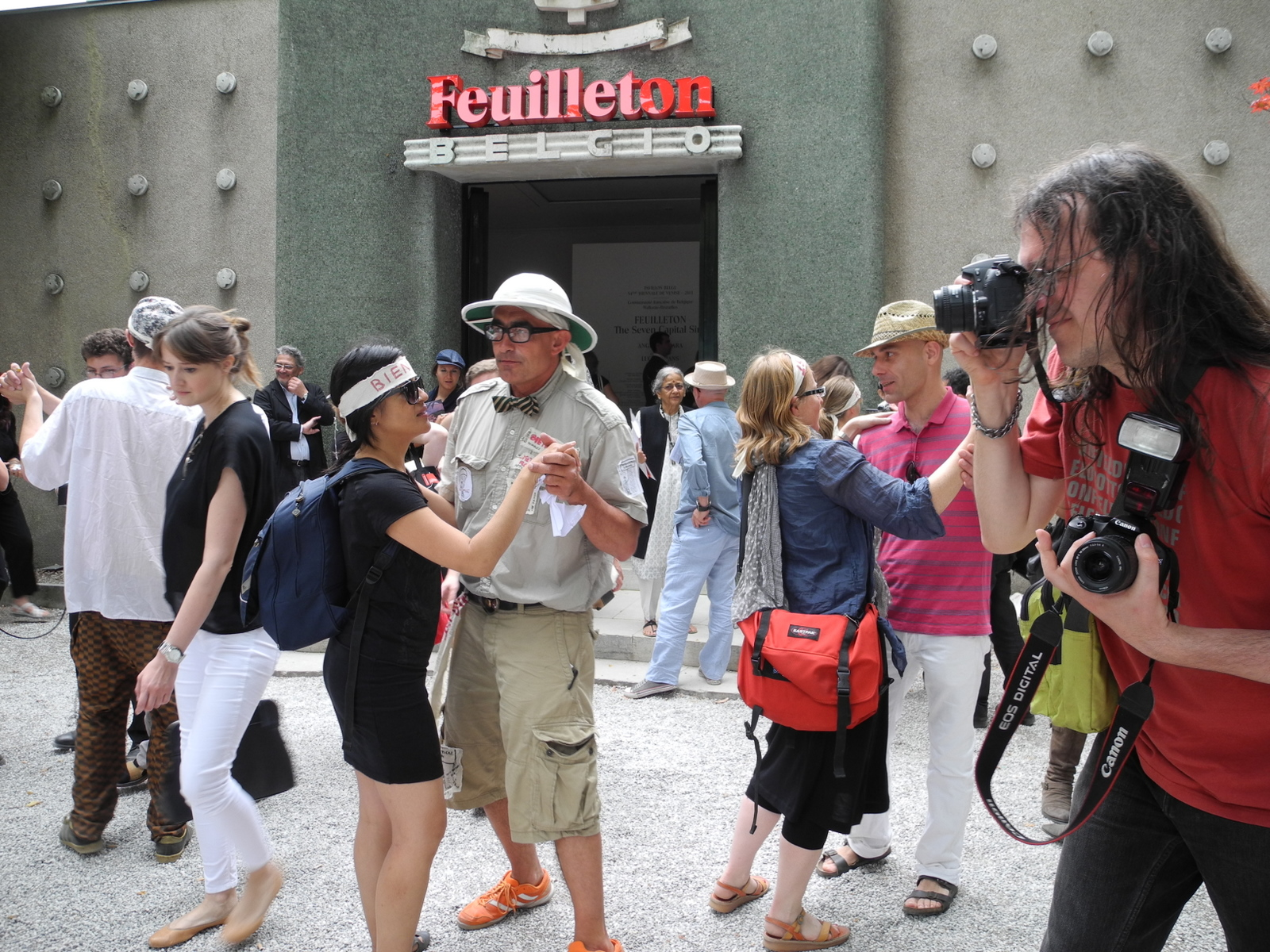 ouverture de la Biennale au Giardini devant les pavilions